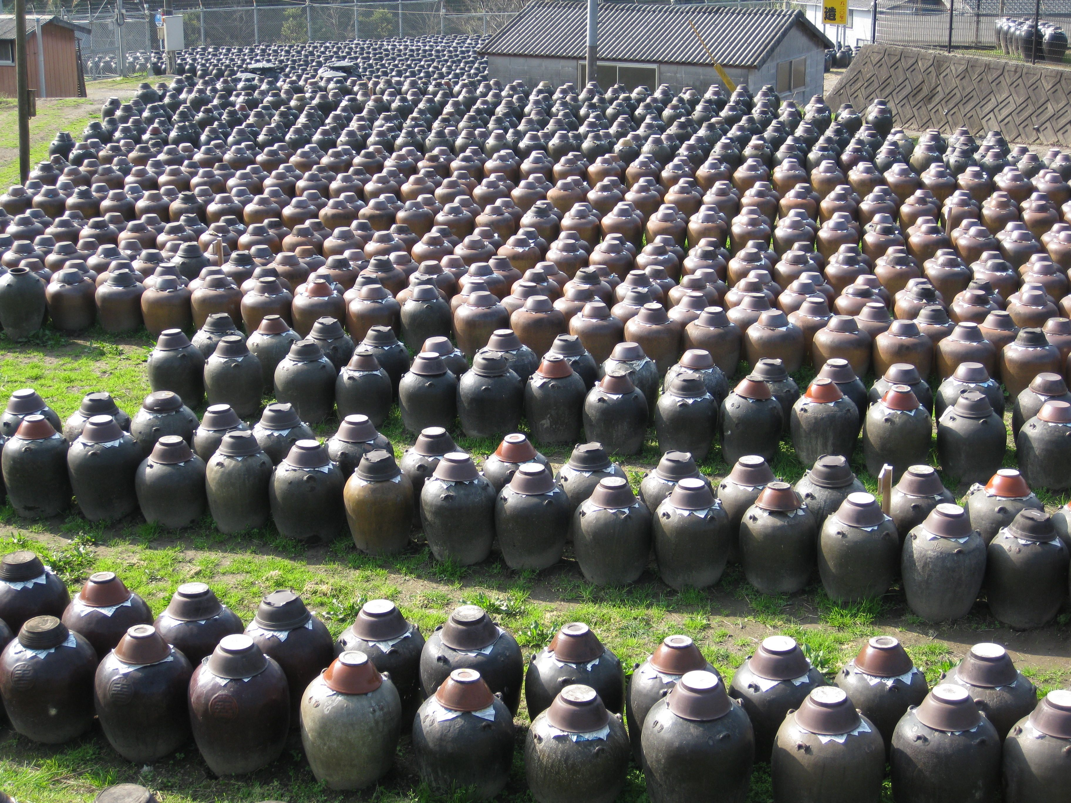 Producing black vinegar using ceramic pots at Fukuyama, Kagoshima